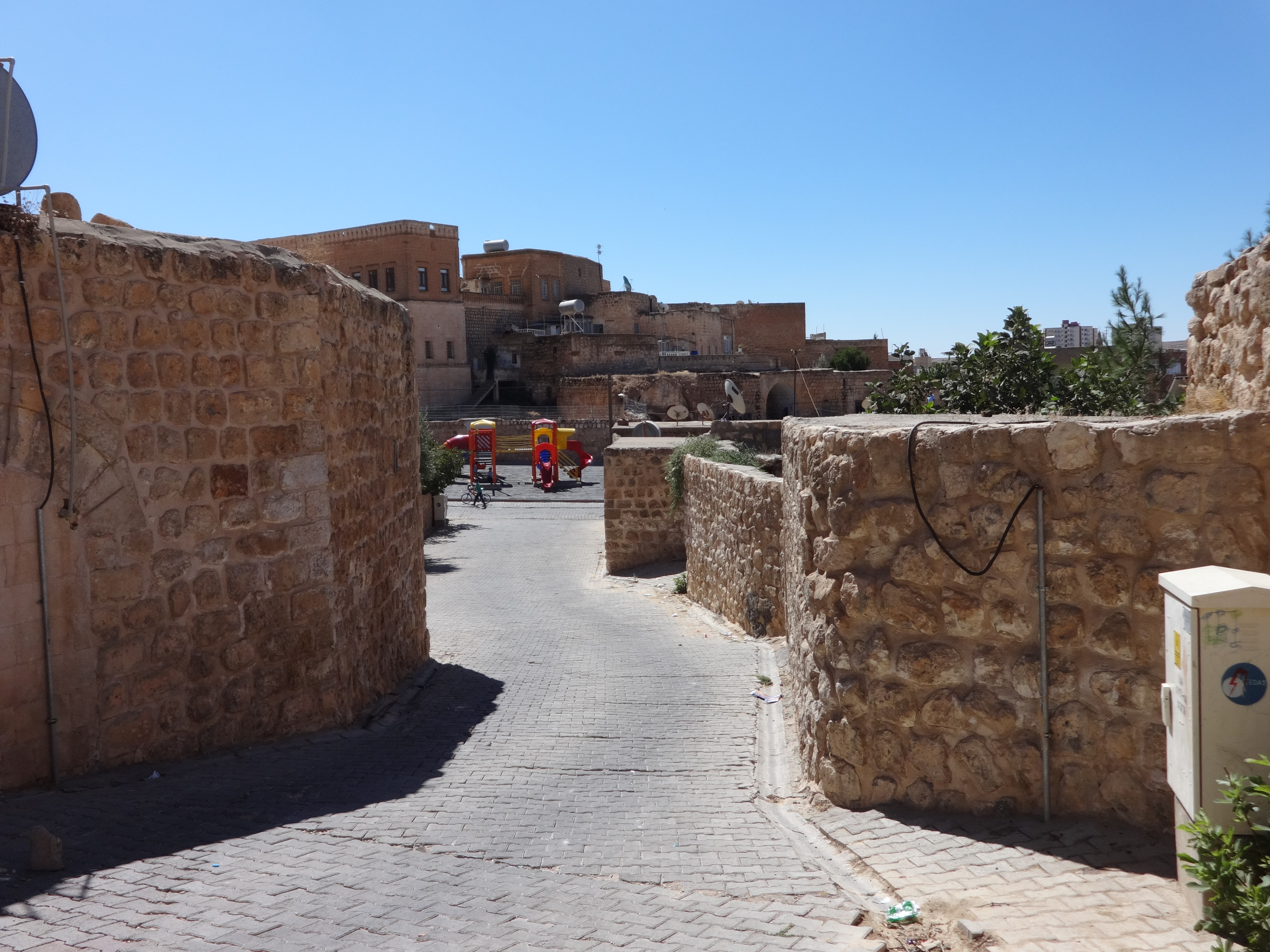 Midyat, old town